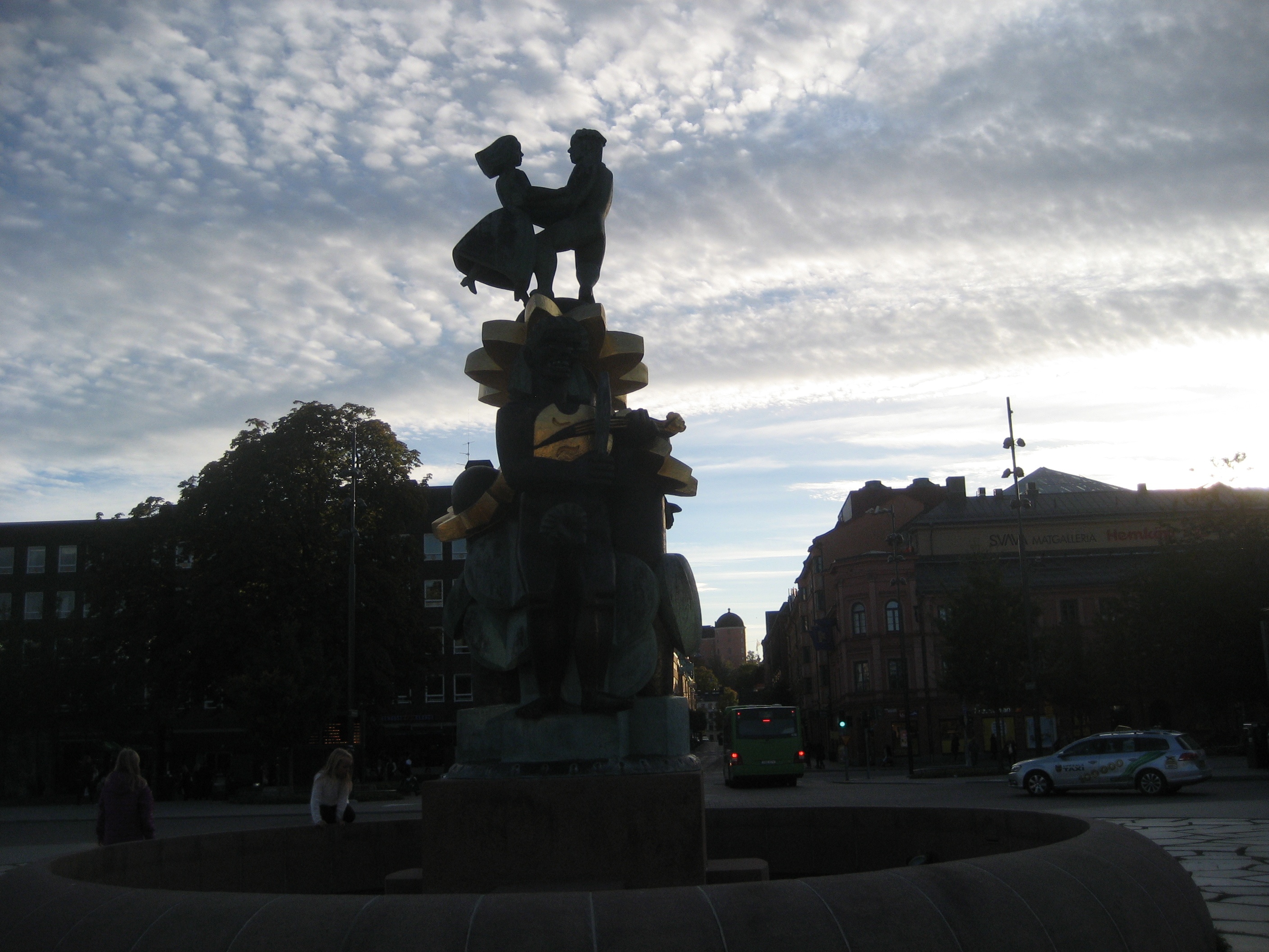 Statue Näckens polska by Bror Hjorth near Uppsala Central Railway Sat